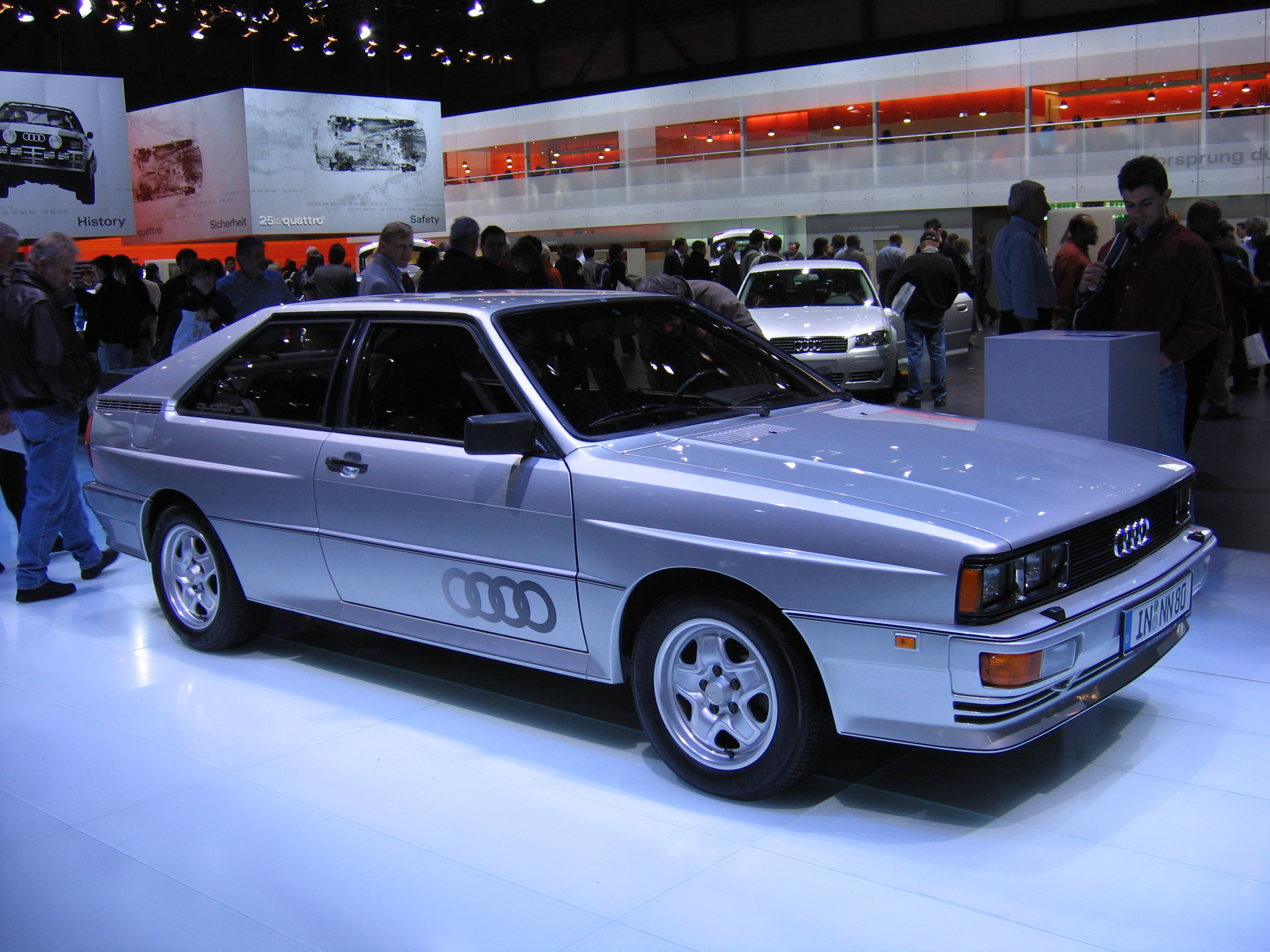 Geneva Motor Show 2005